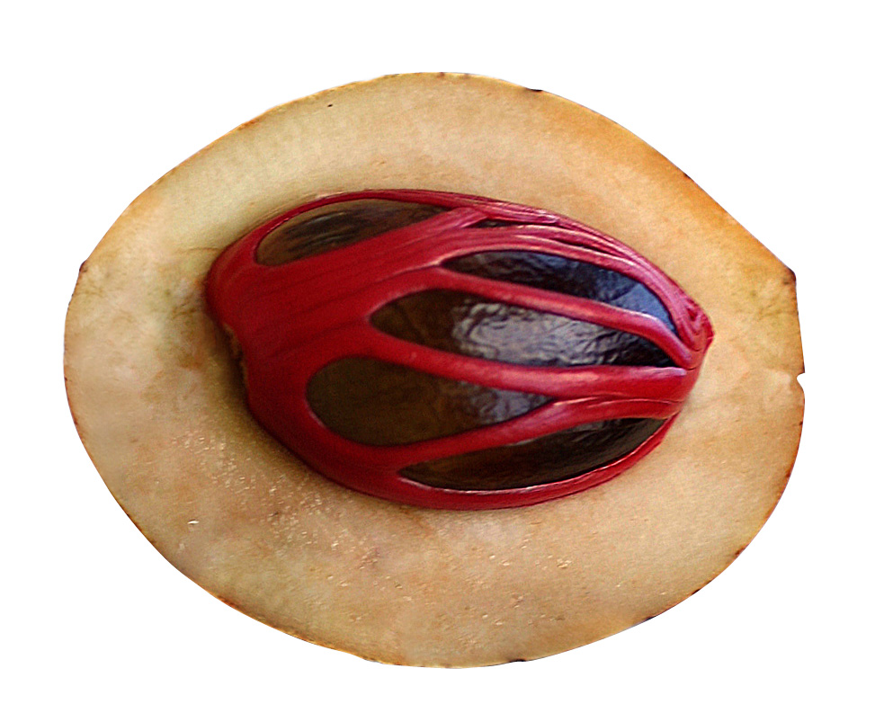 Myristica fragrans Nutmeg. The picture was taken in Zanzibar.